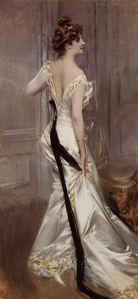 Portrait of Ava Lister, Baroness Ribblesdale; née Ava Astor